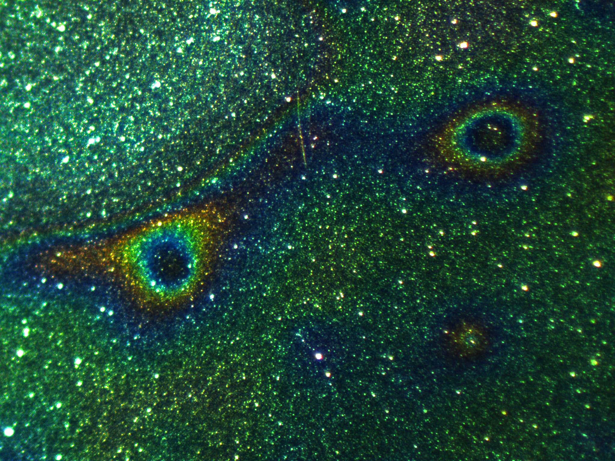 Oxidized nickel surface